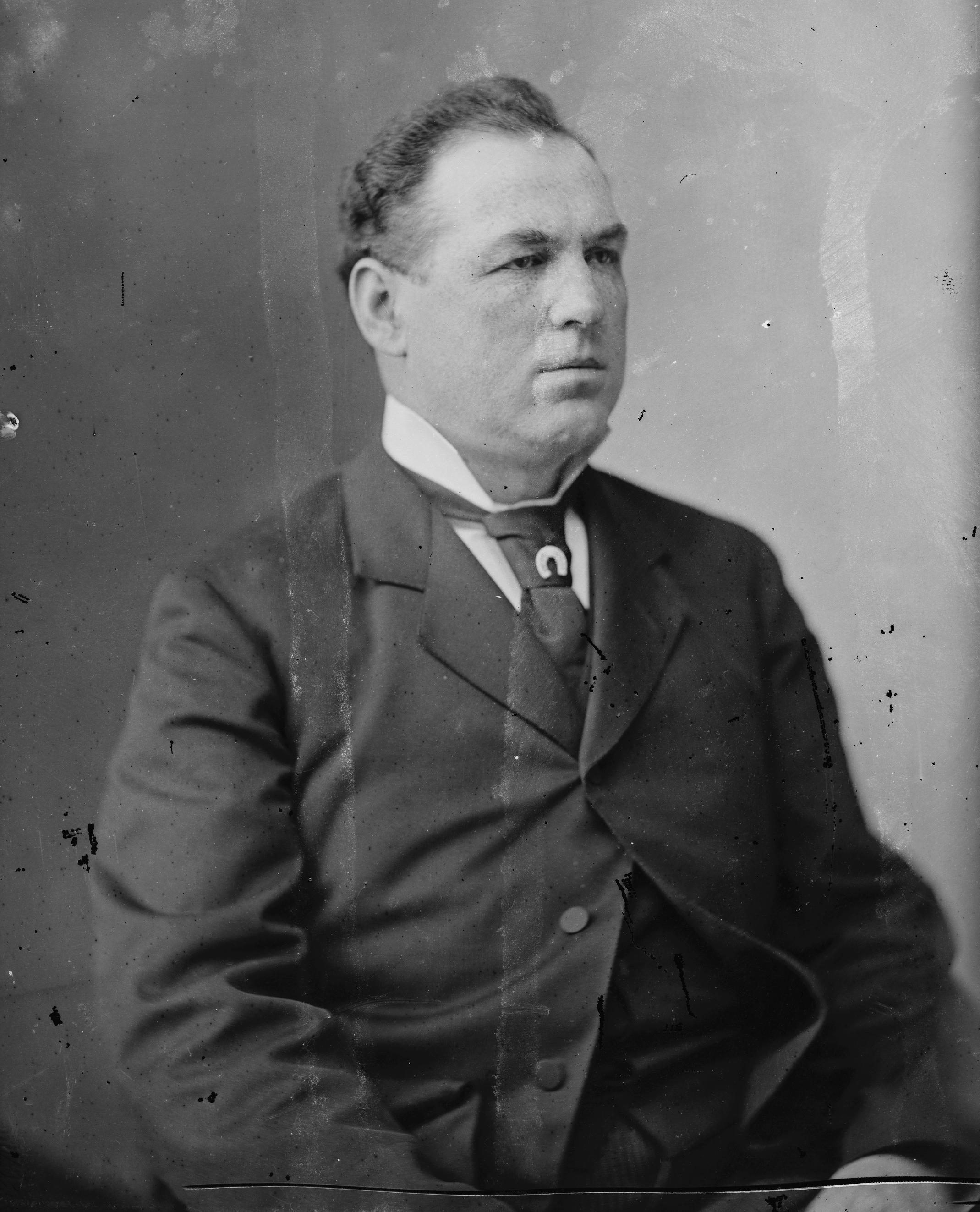 James O'Brien (U.S. Congressman). Library of Congress description: "O'Brien, Hon. James of N.Y.".